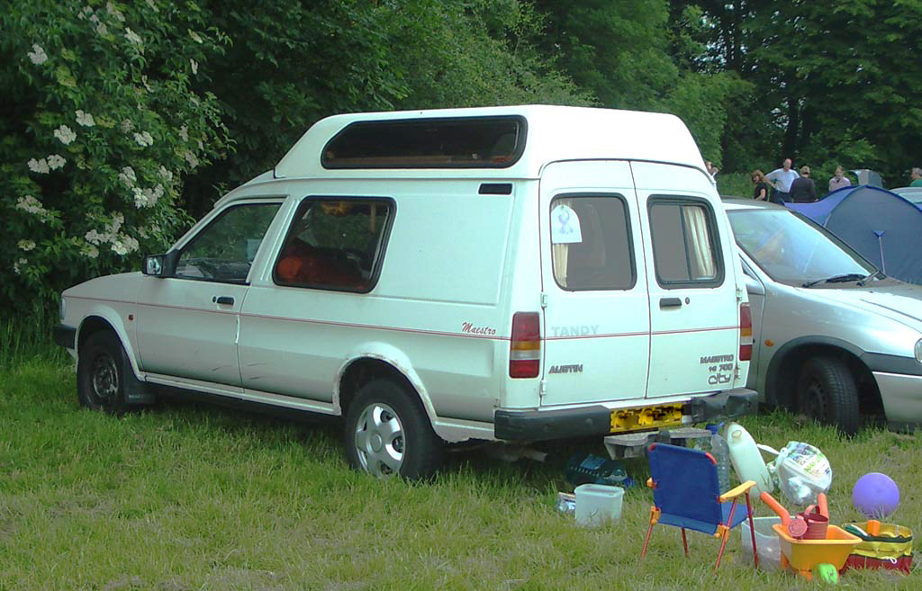 Austin Maestro car - campervan conversion. Rear view.